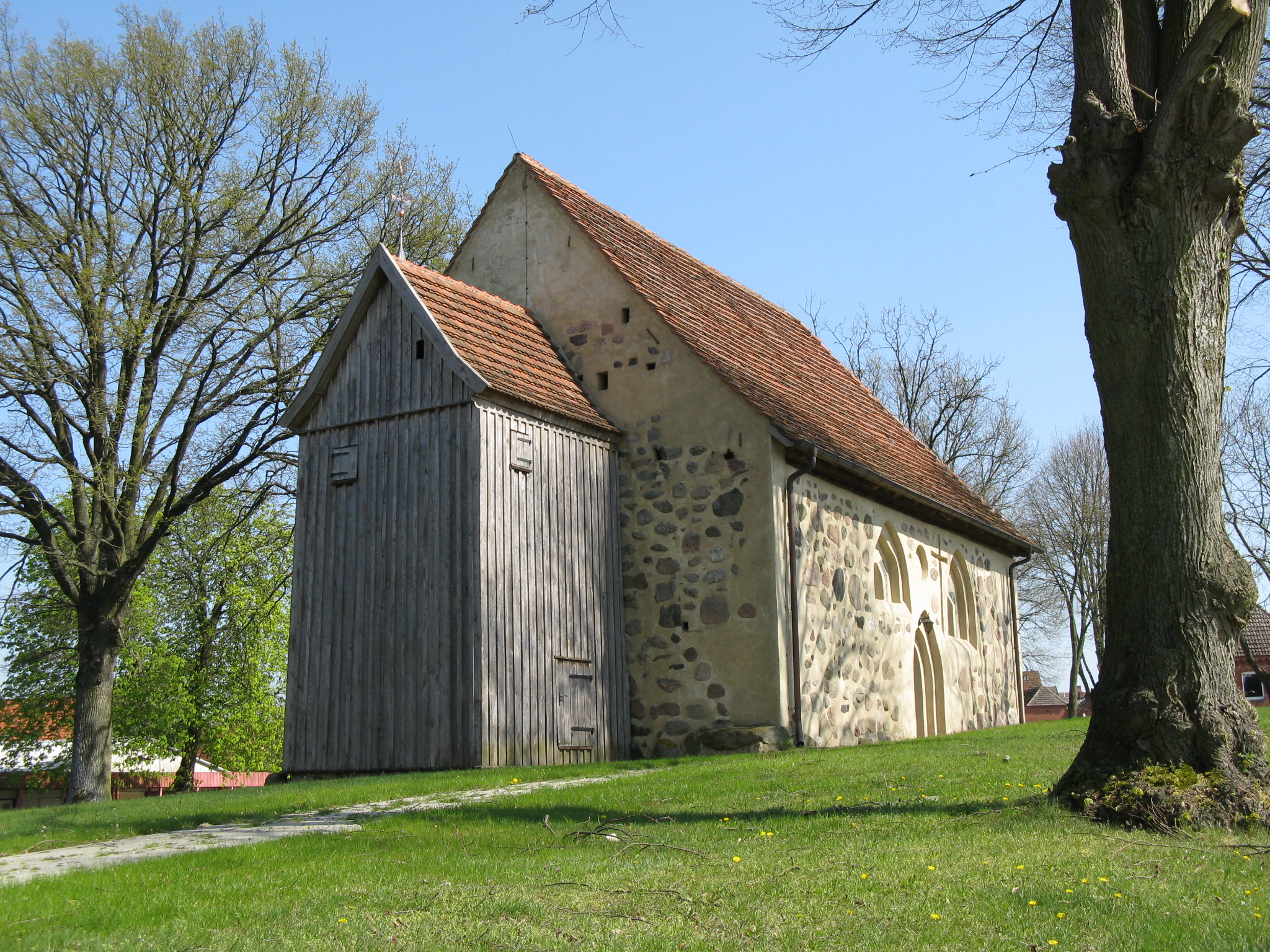 Church in Tramm, disctrict Parchim, Mecklenburg-Vorpommern, Germany